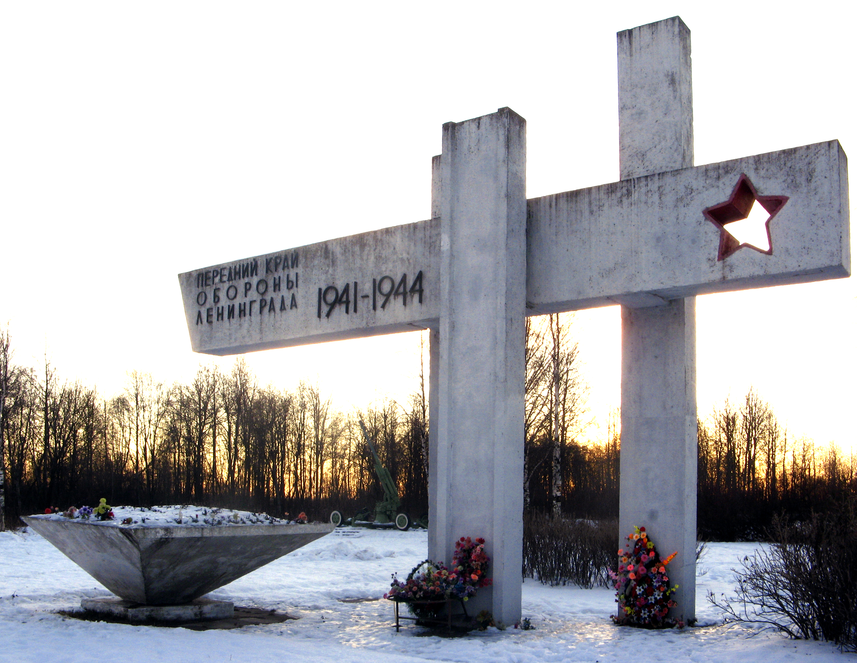 Izhorsky ram (memorial near Kolpino) with antiaircraft gun and flower-bed.